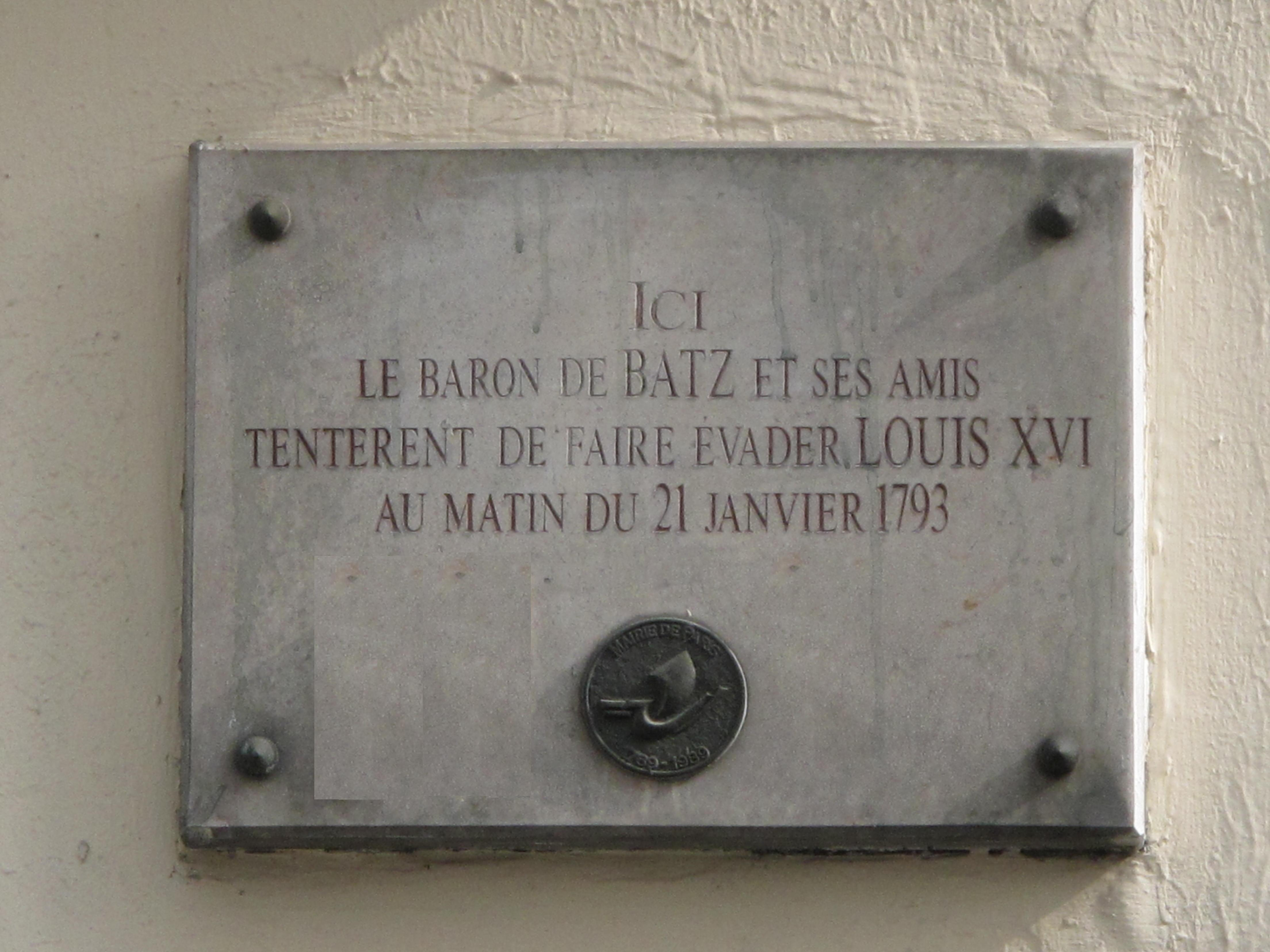 Plaque commemorating the baron de Batz trying (and failing) to free the king Louis XVI of France on the road of his execution : 52 rue de Beauregard, Paris 2nd arr.